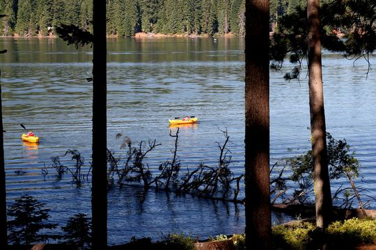 Downed trees along the shore of Lake of the Wood in the Winema National Forest of southern Oregon